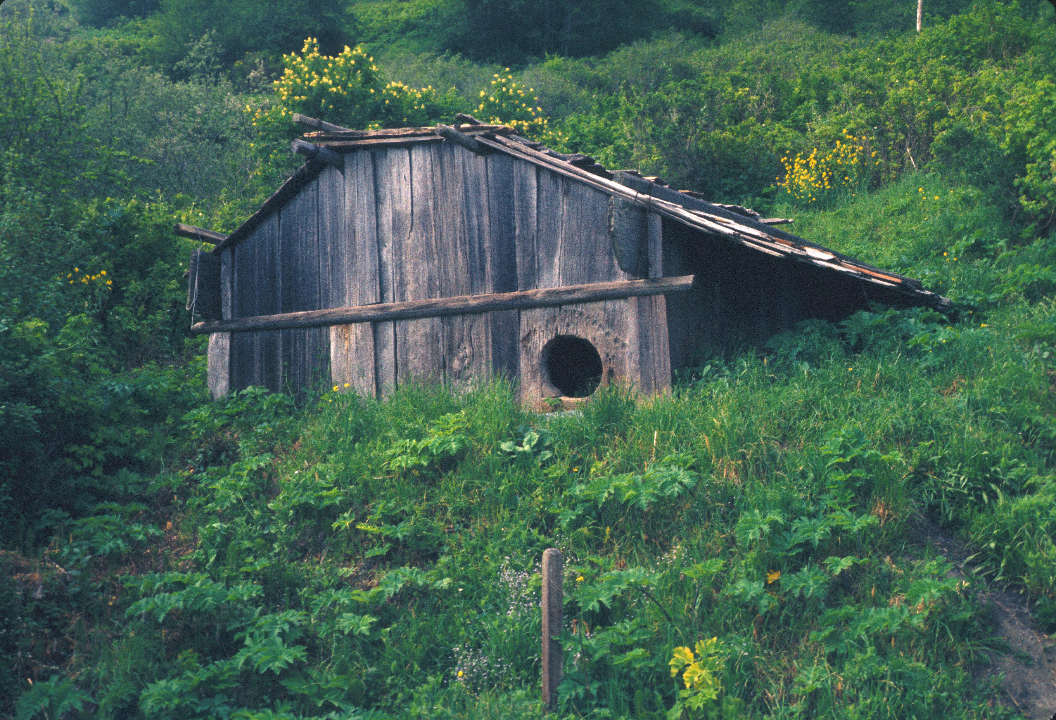 reconstructed plankhouse typical of the yurok nation in todays California in Redwood National Park